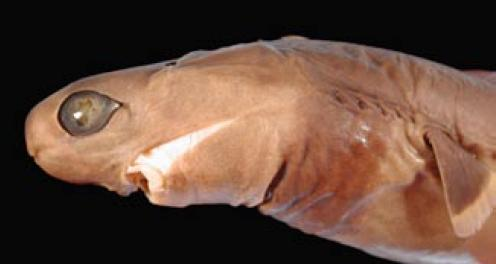 Head of a cookiecutter shark (Isistius brasiliensis)